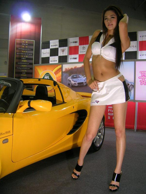 at the 2009 F1 & World Supercar Show in the Kim Daejung Convention Center (Kwangju, ROK)